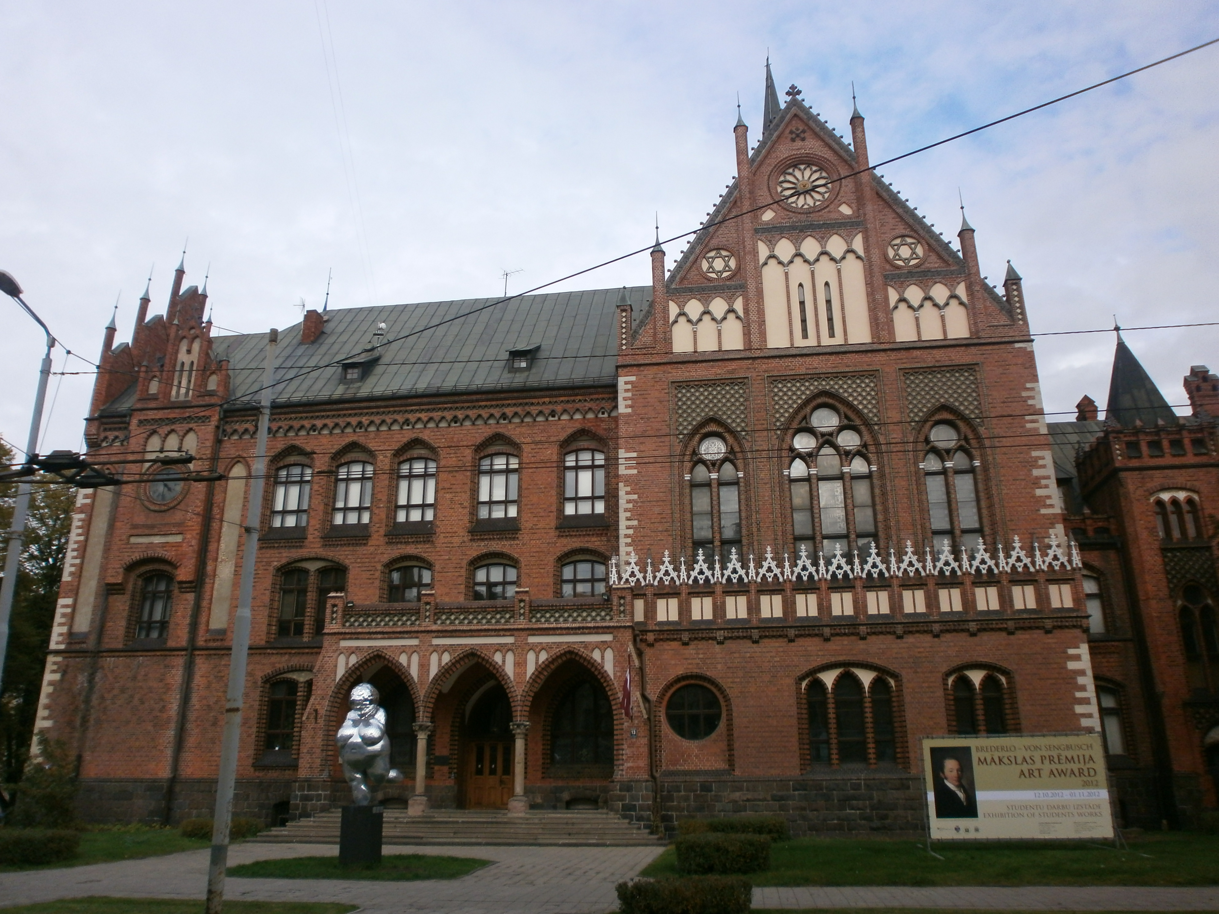 Art Academy of LatviaLatviešu: Latvijas Mākslas akadēmija